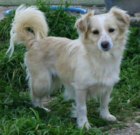 creme